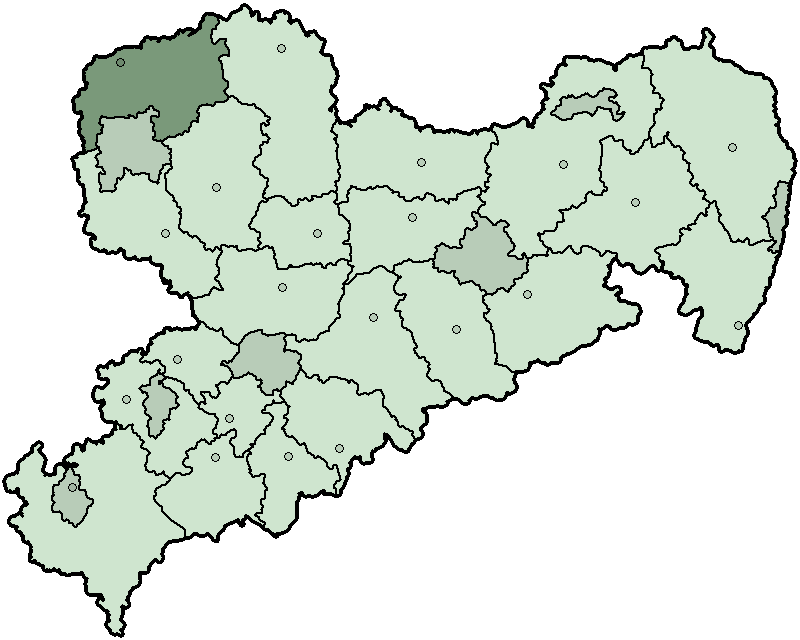 Map of the state Saxony in Germany before 2008, district Delitzsch highlighted.